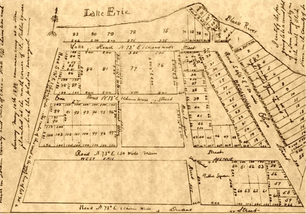 1834 Plat Map for the village named "Black River". The first known registered survey for what was, 40 years later, to become the City of Lorain, Ohio. This village was originally officially 'platted' about 1822, by pioneer John S. Reid upon the farm that he had purchased at the mouth of the Black River about 1808; and after his death, additional village lots were added within the above 'plat' by his son Conrad Reid and his sons-in-laws Daniel T. Baldwin, Quartus Gillmore, and Barna Meeker. The village was renamed "Charleston" in 1836, although that name was quickly rejected by most its own citizens, and it was publicly known almost continuously, as simply "Black River village", until it was finally named Lorain in 1874. [Note the names of the streets, some of which were added in at a much later date. "Lake Street" should not be confused with Lake Road, which is "Main Street"/"West Erie" on this map.]. {Caption written by wiki-user ohiopioneers, on file originally uploaded 8 Apr 2012 (updated June 2016).